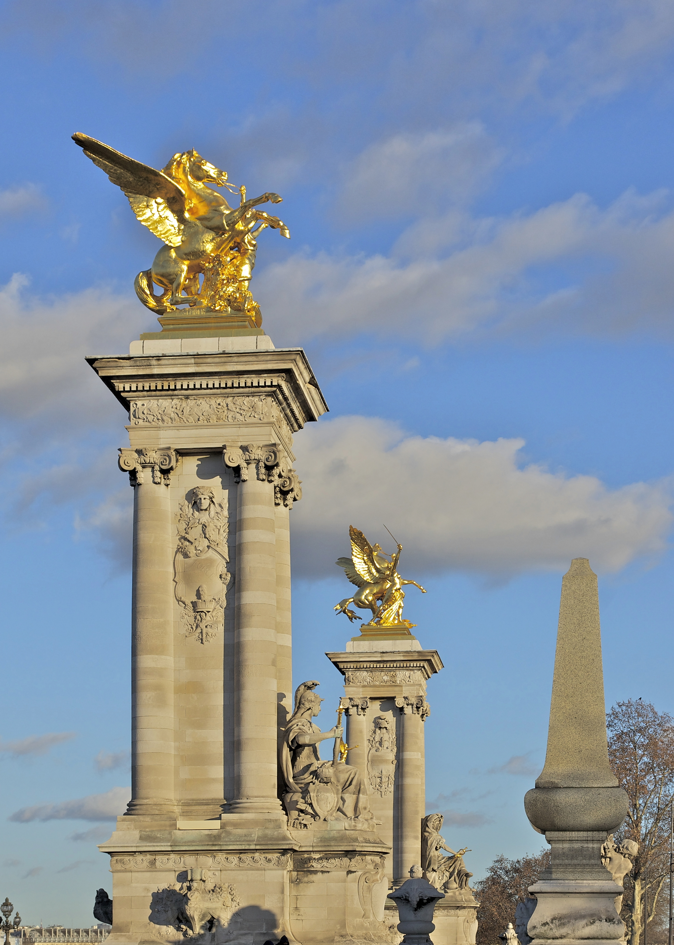 Lower view of the monumental entrance to the Pont Alexandre III in Paris, left bank.